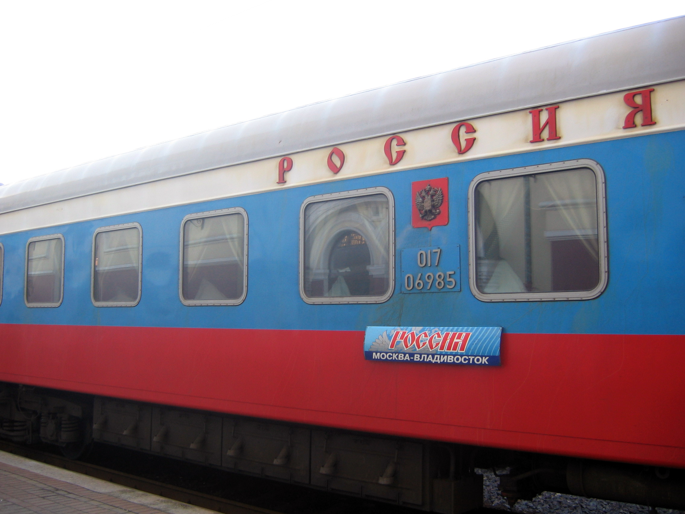 Trans-Siberian train. Moscow-Vladivostok, Siberia.